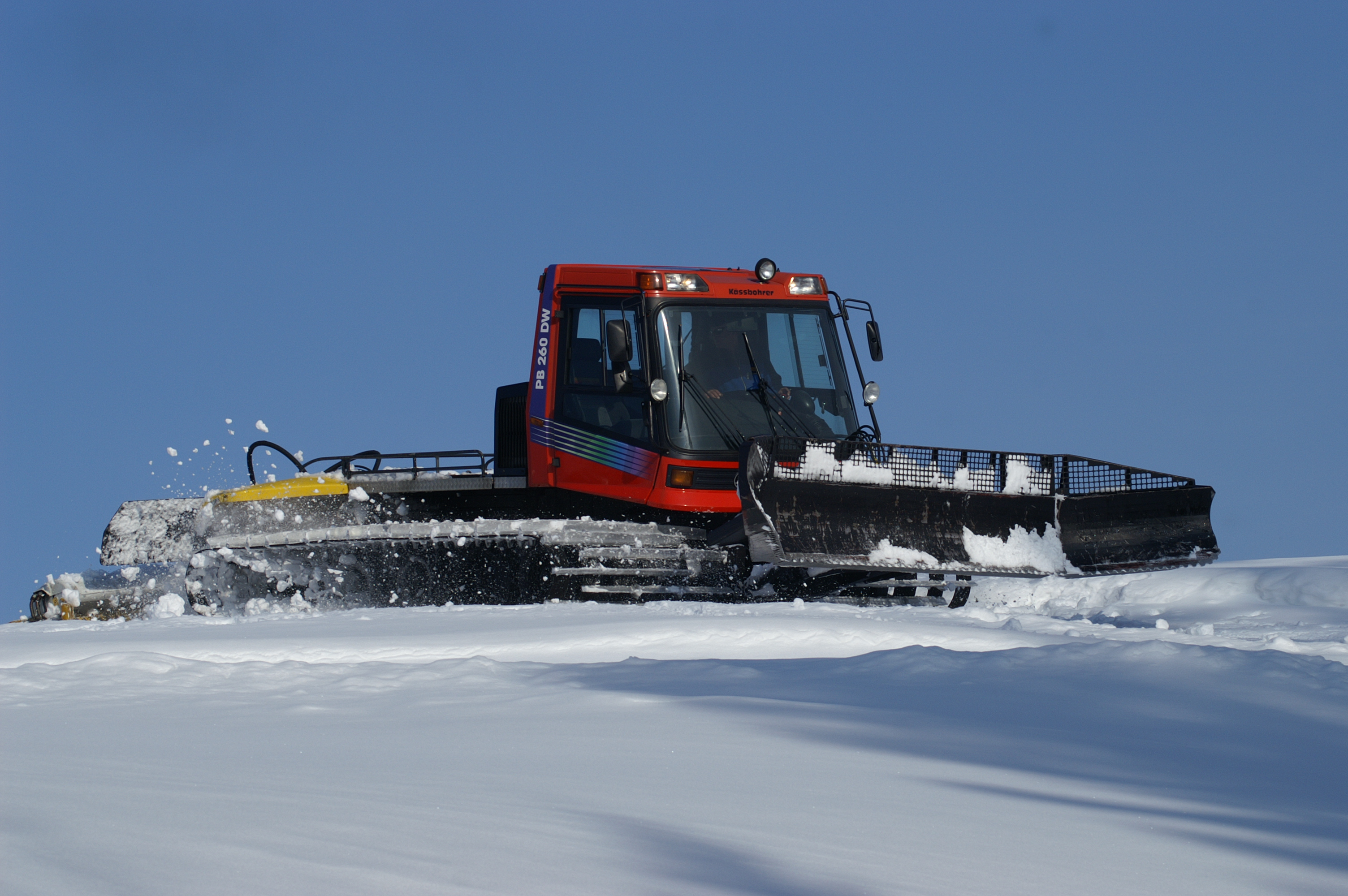 Snowcat, (made by Kässbohrer type: "PB260DW") in use on the Bödele in Dornbirn, Vorarlberg.